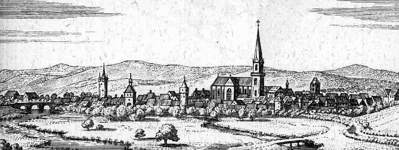 This is a scan of the historical document: Title: Wetter - Topographia Hassiae language: german